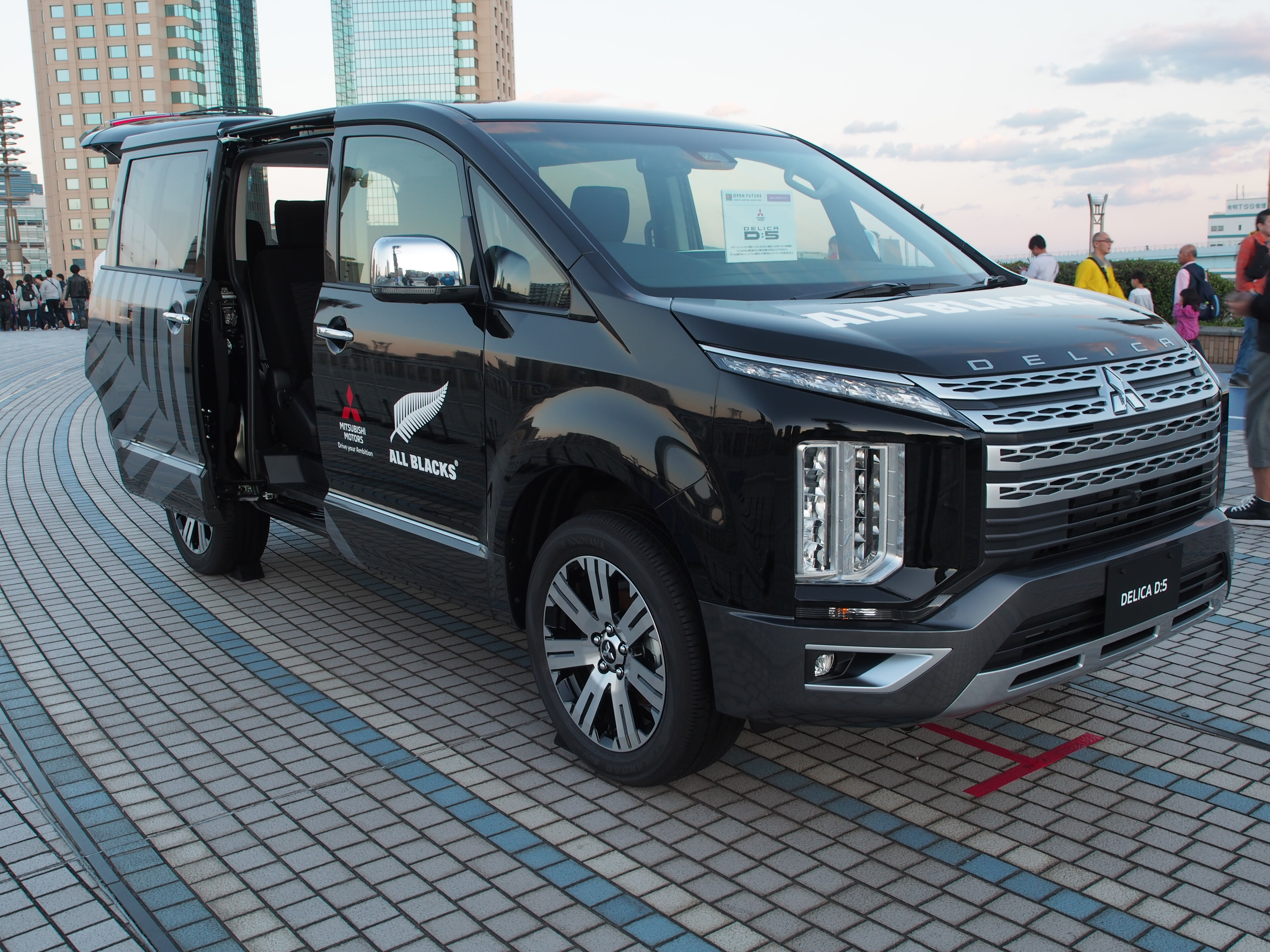 Mitsubishi Delica D:5 "All Blacks" New Zealand Rugby Union team support car exhibited at the Tokyo Motor Show 2019.